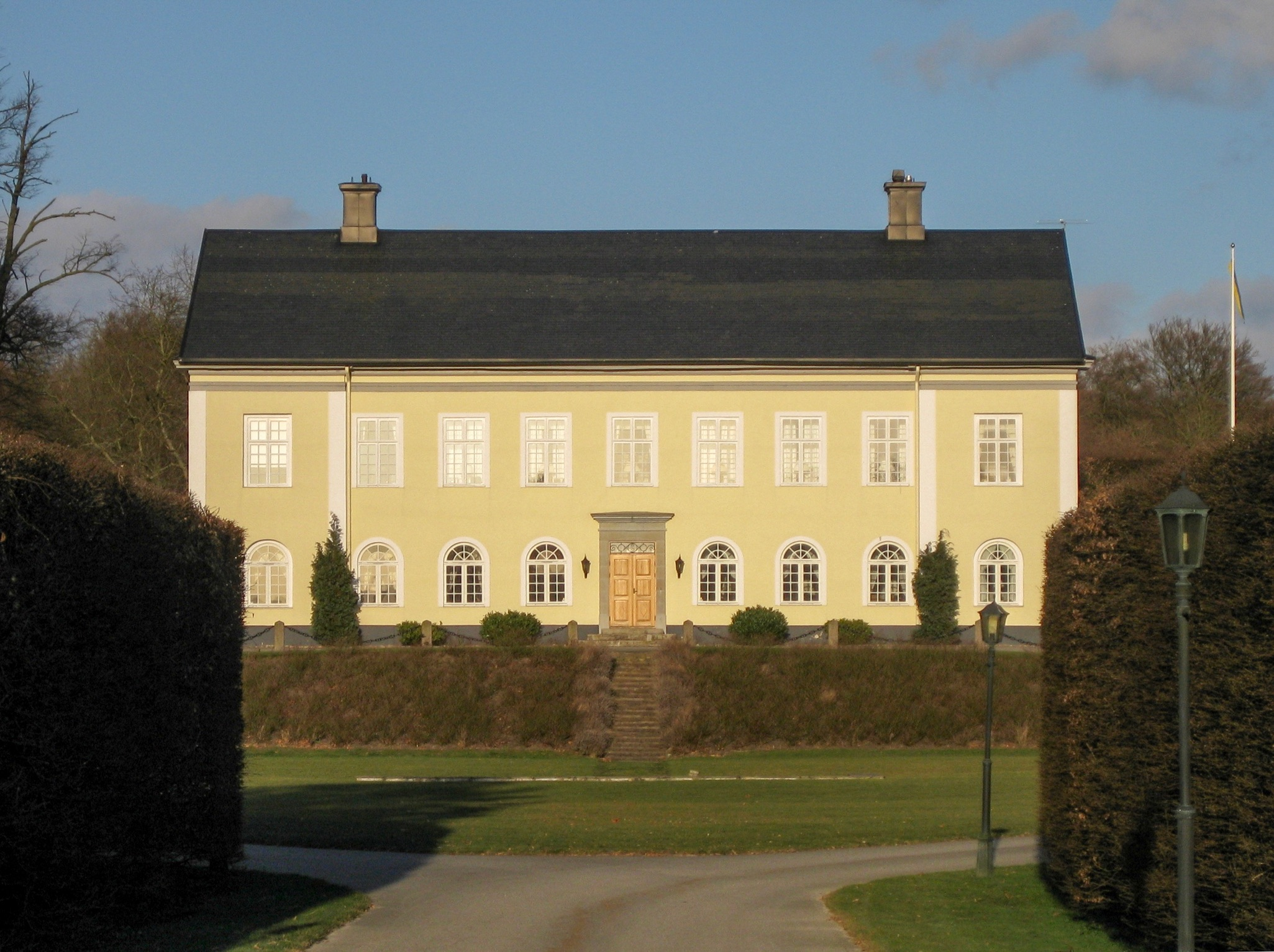 Skönabäck manor in Skåne, Sweden